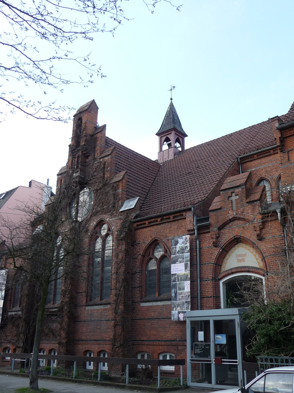 Immanuel Chapel in Bremen-Walle